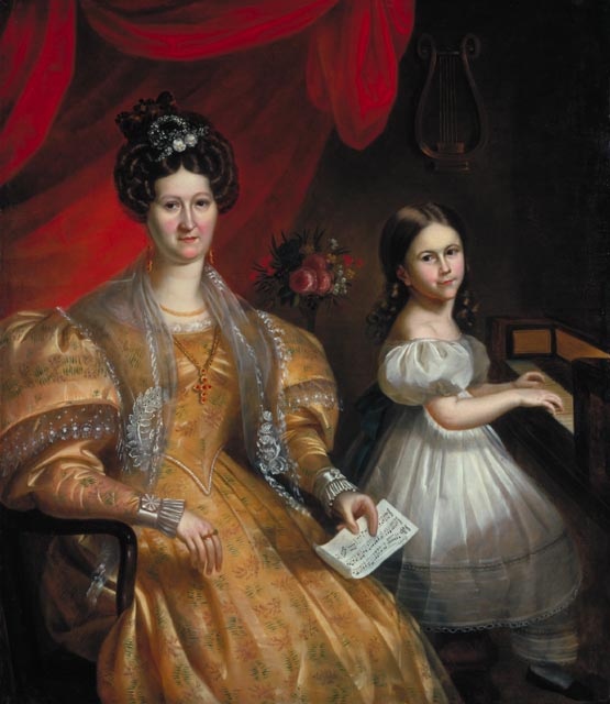 Julie Papineau (née) Bruneau, wife of Louis-Joseph Papineau, and their daughter Ezilda, 1836